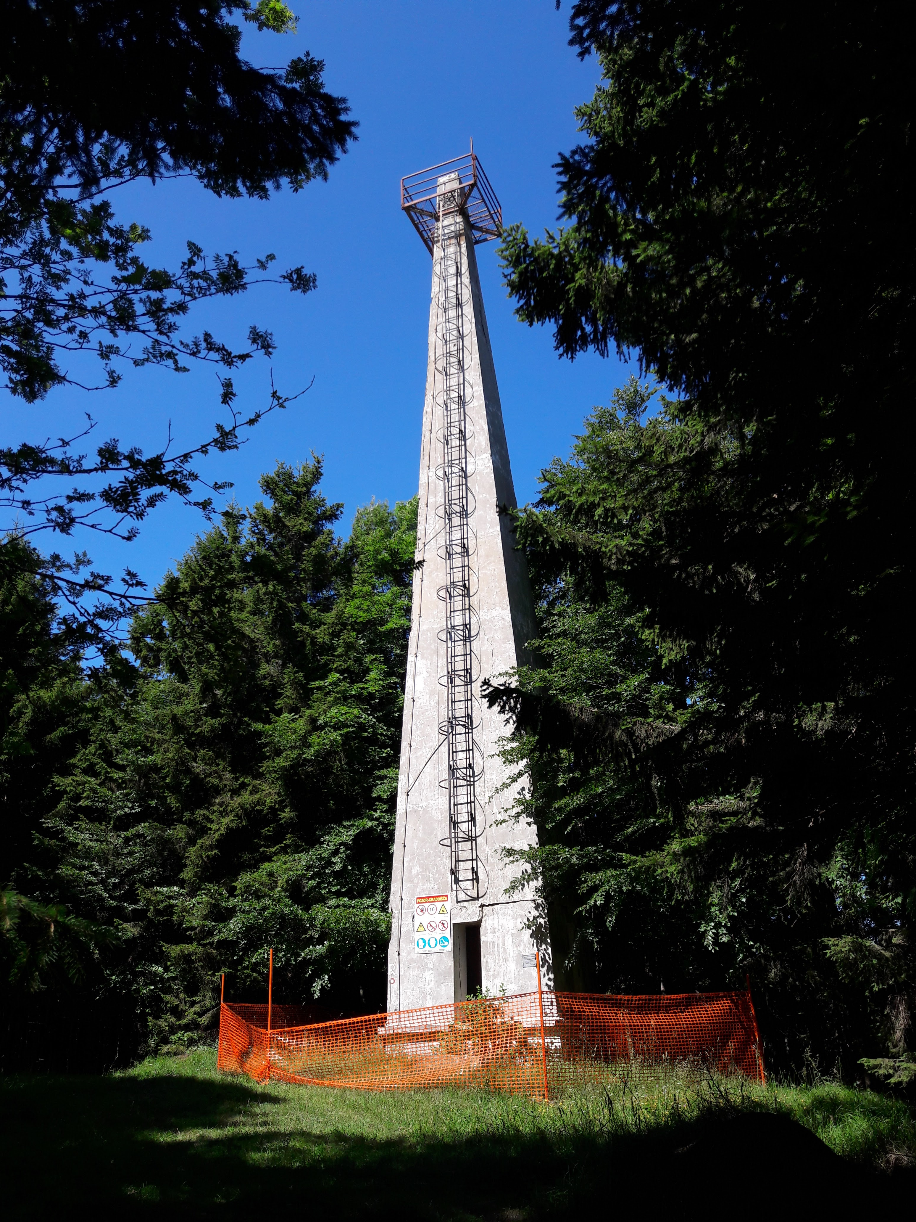 Žigartov vrh, Pohorje